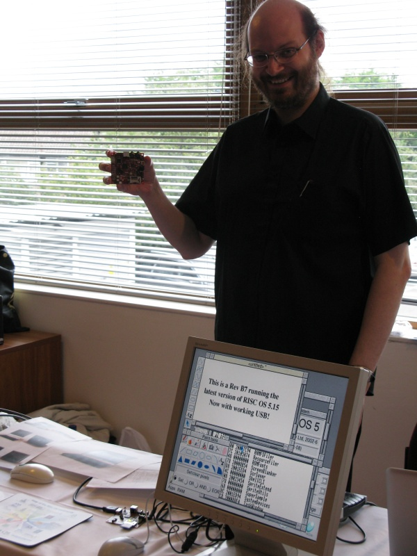 Ben Avison showing a BeagleBoard at the RISC OS London Show 2009